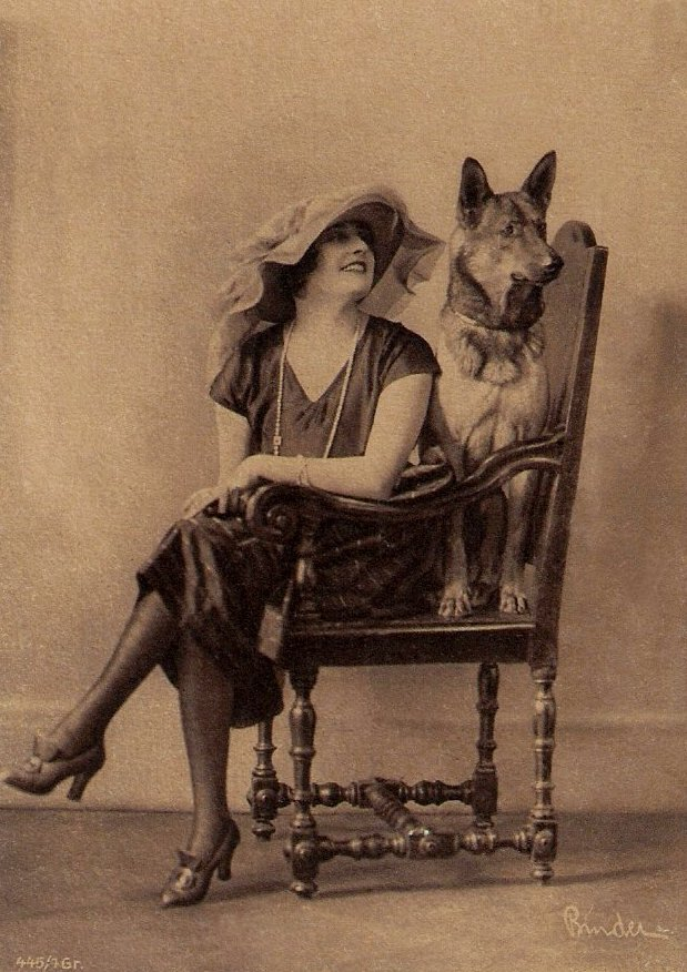 Fern Andra